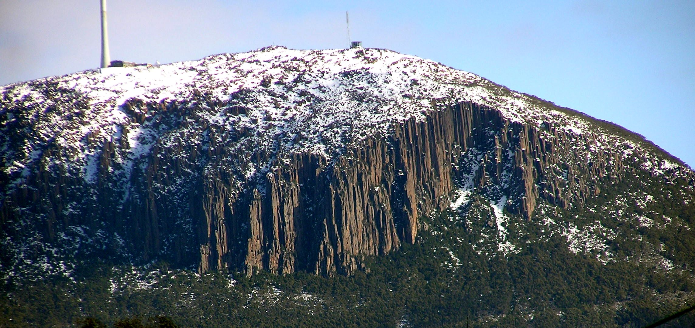 Photo of top of Mount Wellington Tasmania showing the Organ Pipes, columnar jointed dolerite